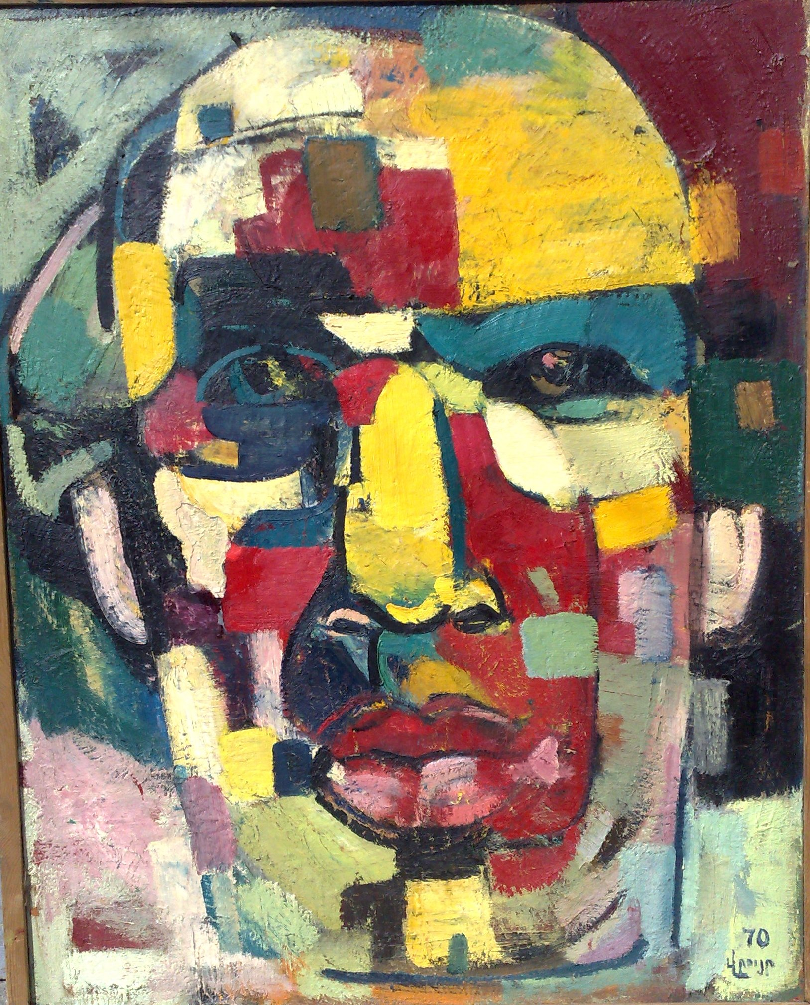 Vruir Galstian - Self Portrait